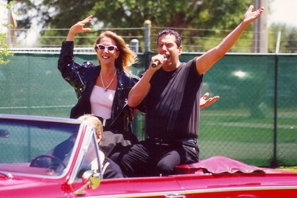 Jon Bowzer Bauman - Apr 2000 Photo by Alan C. Teeple User:ACT1